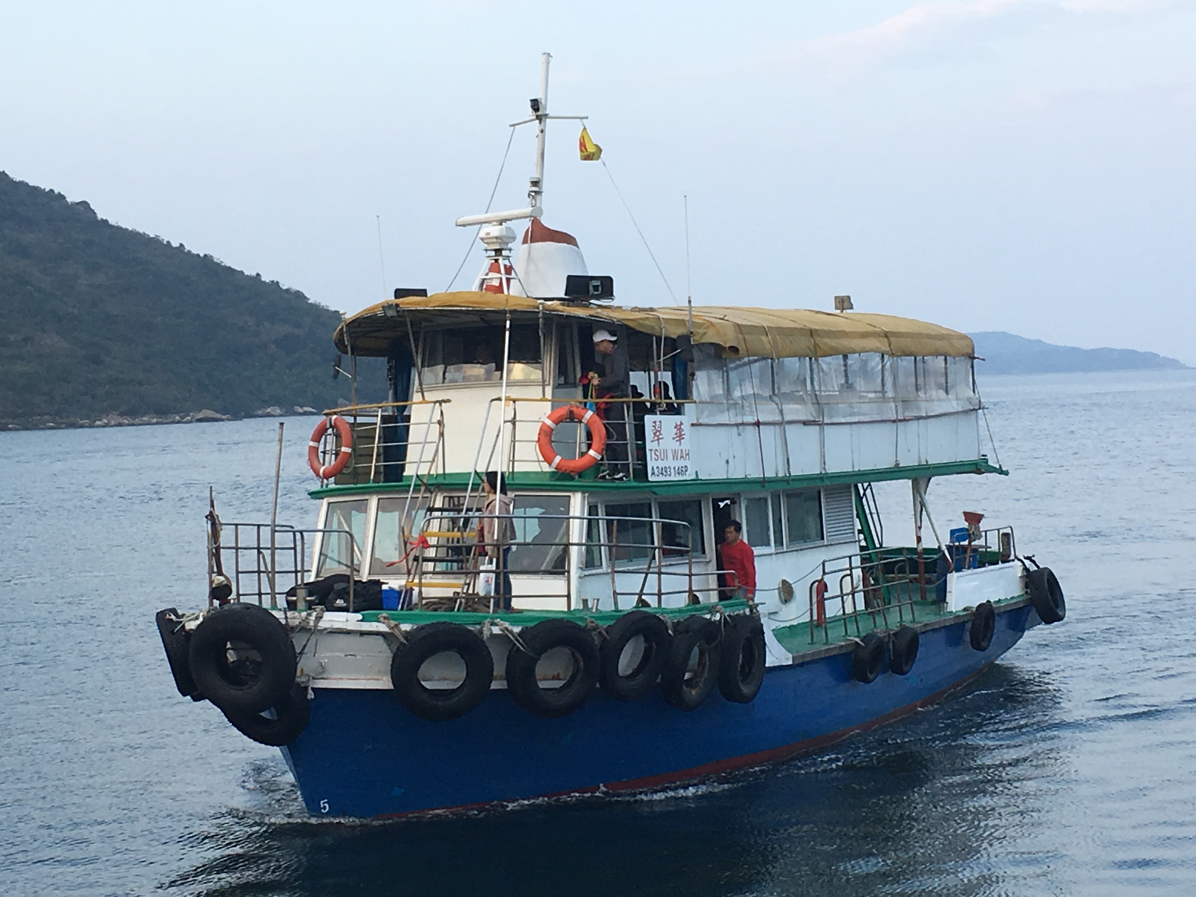 中文（香港）: This photo is taken in Wong Shek Pier.